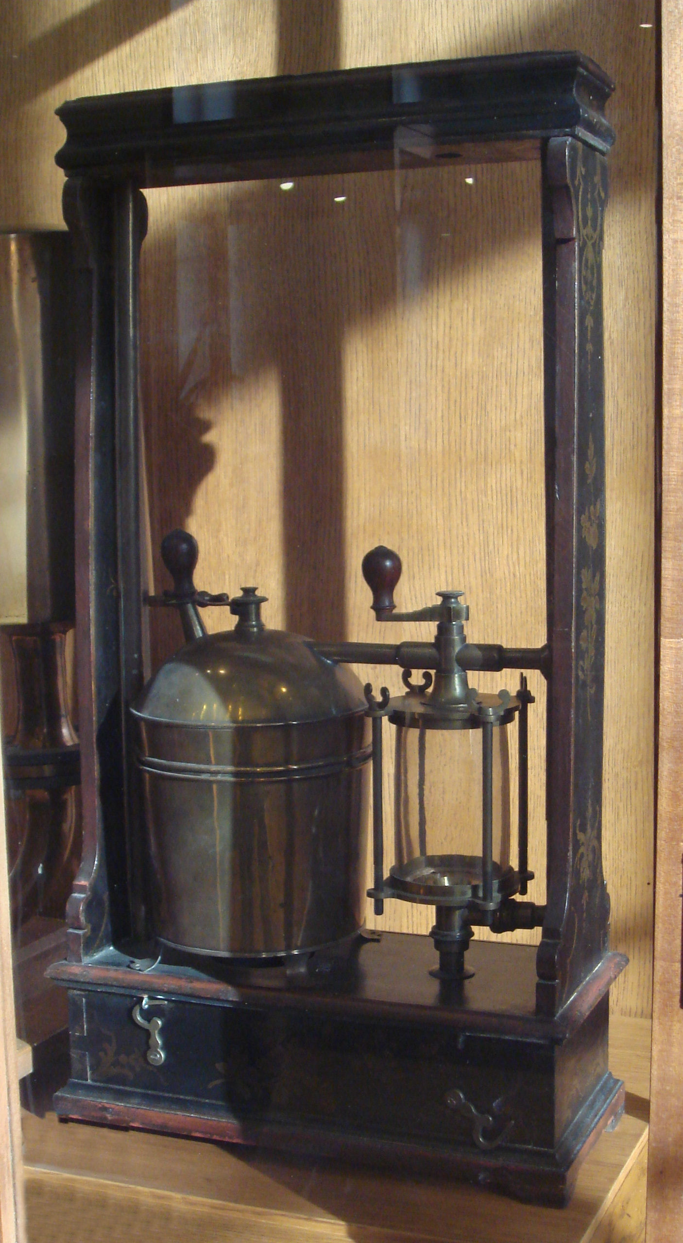 Fire_pump_Savery_system_1698, 18th century reconstitution